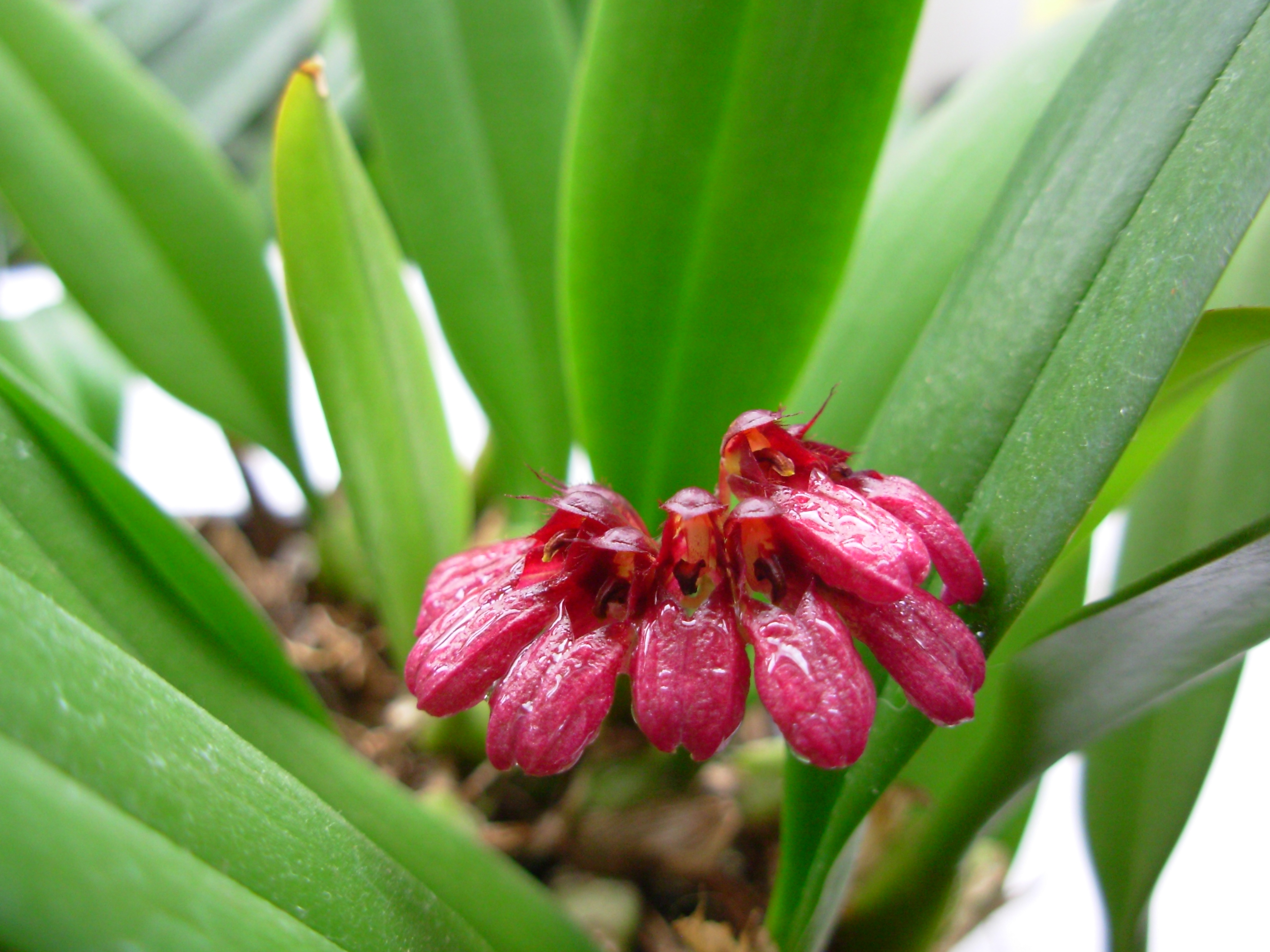 Bulbophyllum corolliferum; the flowers aren't wet, they are naturally covered in nectarlike secretion.